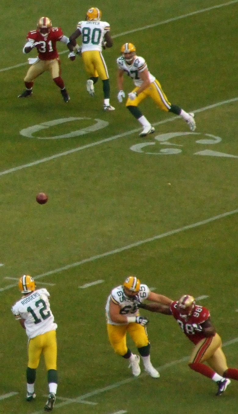 Aaron Rodgers passes the football to Jordy Nelson during a Green Bay Packers pre-season game against the San Francisco 49ers in 2008.